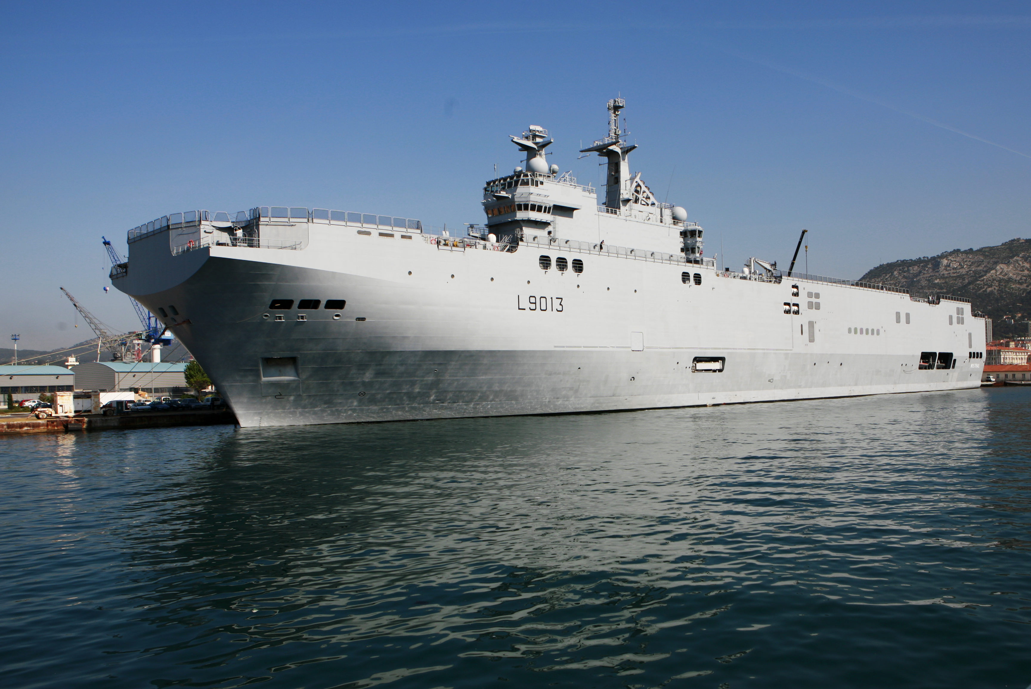 French Command and Projection Ship Mistral (L 9013). Mistral is currently moored at the entrance of Toulon harbour, where she is preparing to host President Sarkozy during the celebrations of the 8th of May 2009.